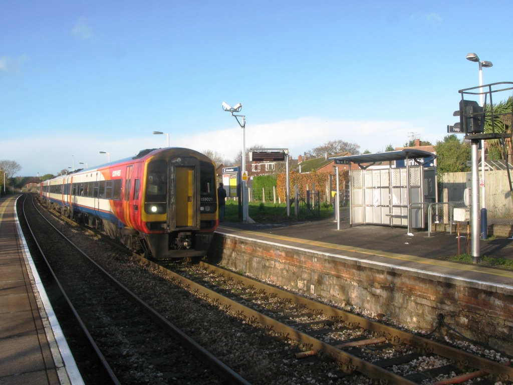 150021 leads an Exeter to London Waterloo train into Pinhoe station, Exeter.